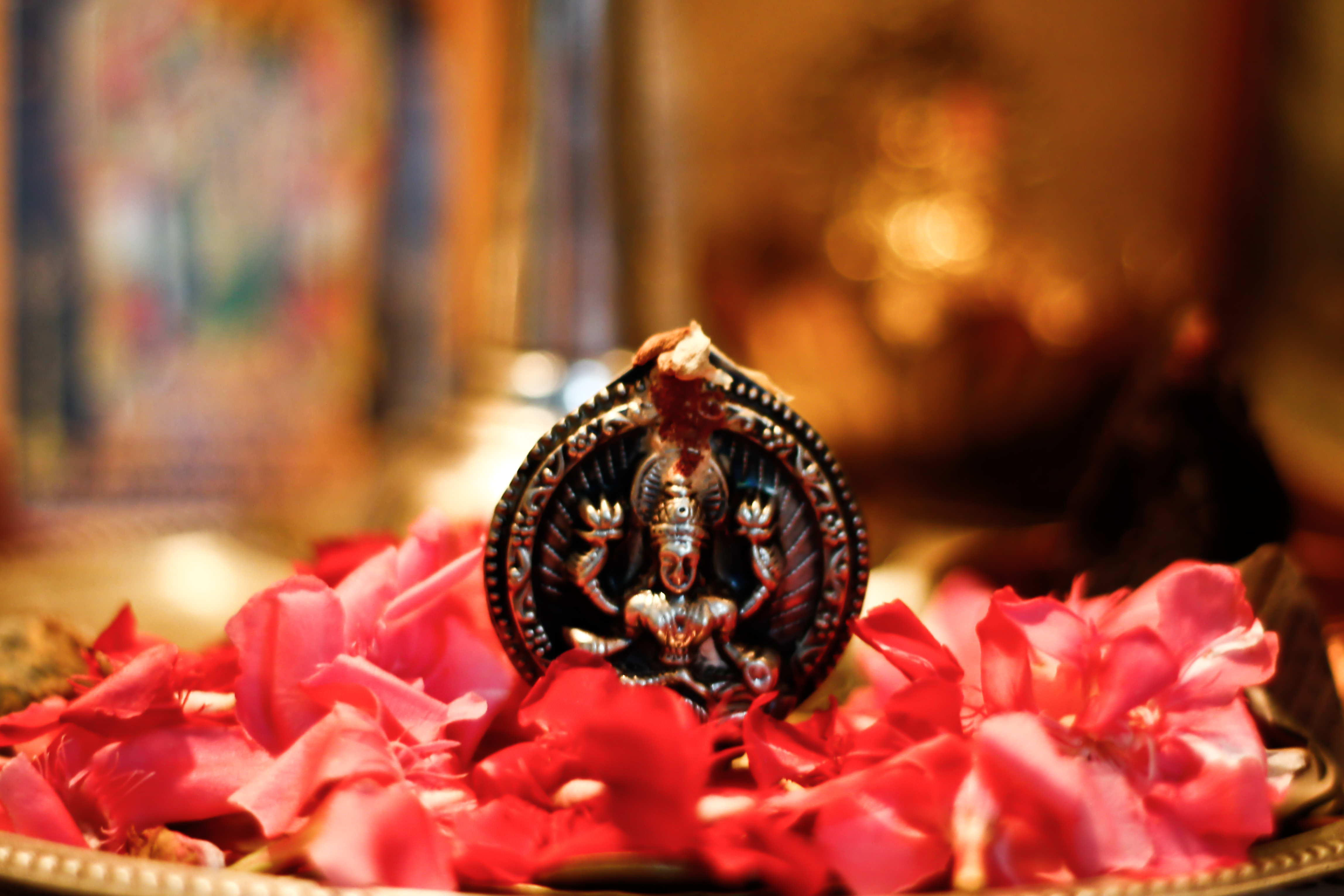 Lakshmi is the Hindu goddess of wealth, prosperity (both material and spiritual), fortune, and the embodiment of beauty. She is the consort of the god Vishnu. Representations of Lakshmi are also found in Jain monuments. In Buddhism, Lakshmi manifests as Vasudhara.